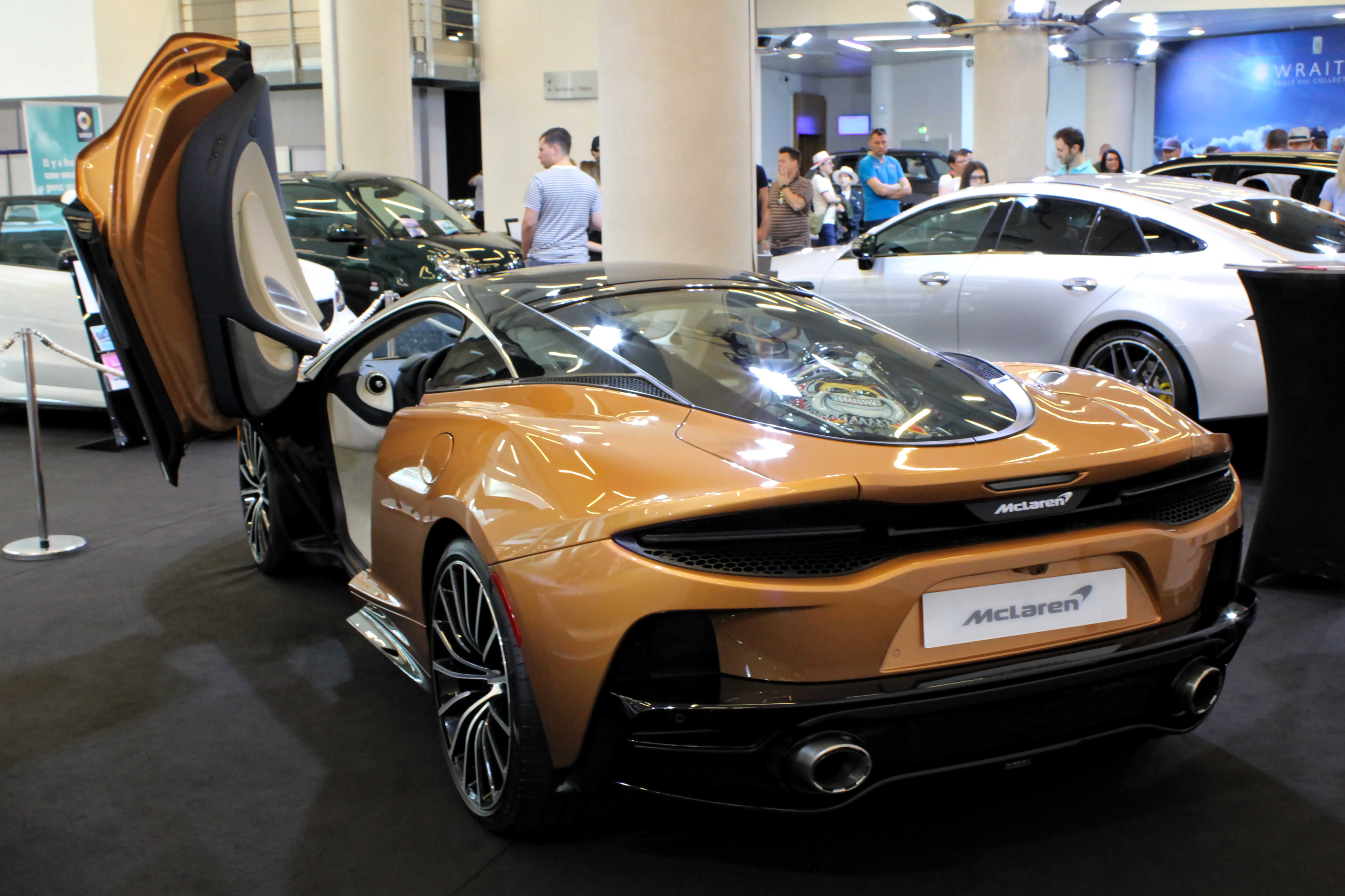 McLaren GT at Top Marques 2019